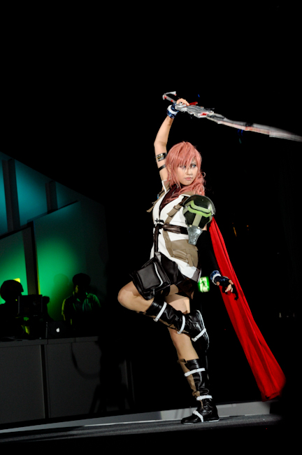 Cosplayer of Lightning from Final Fantasy XIII at Tokyo Game Show 2011.